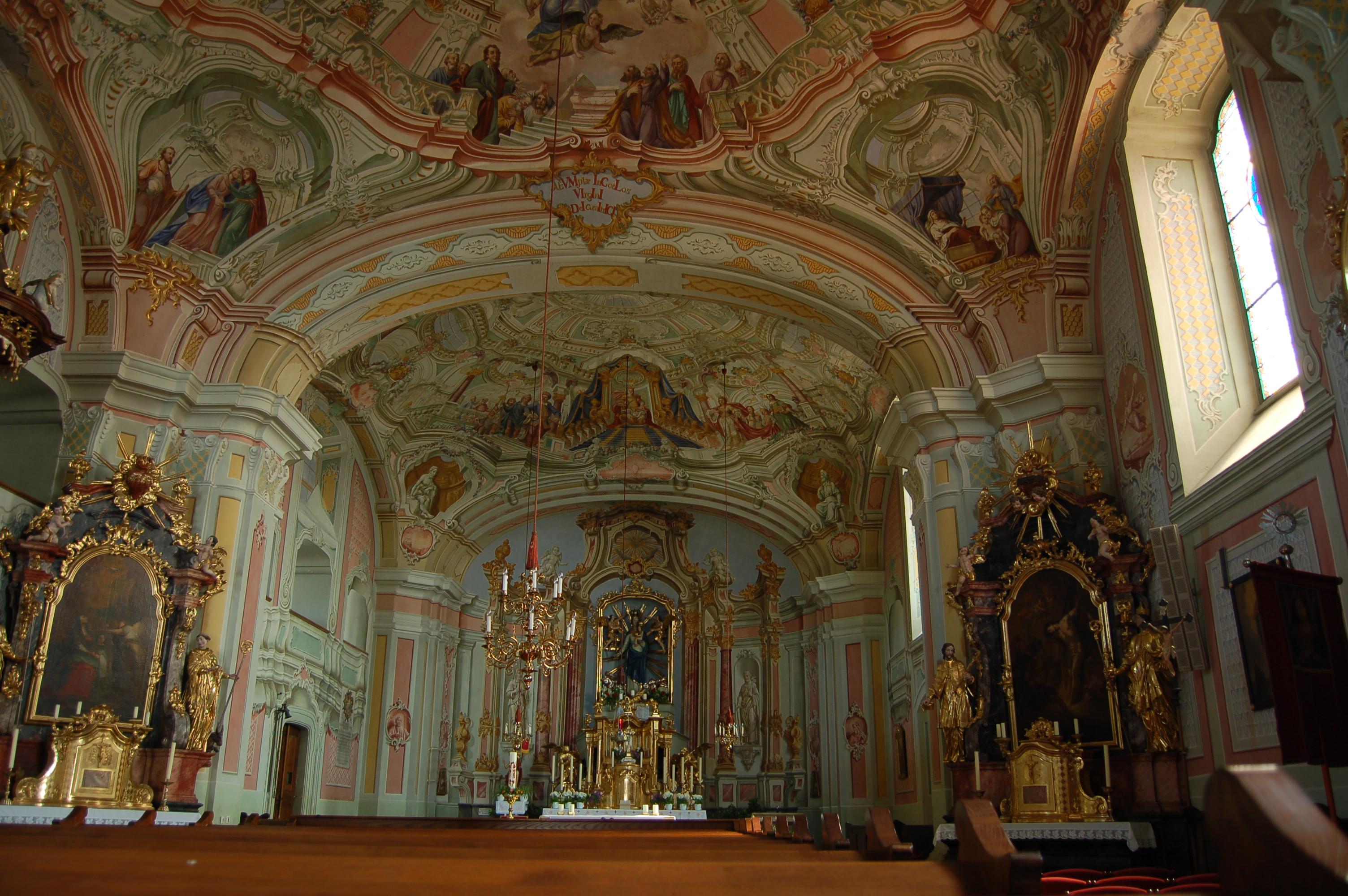 Interior of Frauenberg bei Leibnitz pilgrimage church, Seggauberg municipality, Styria